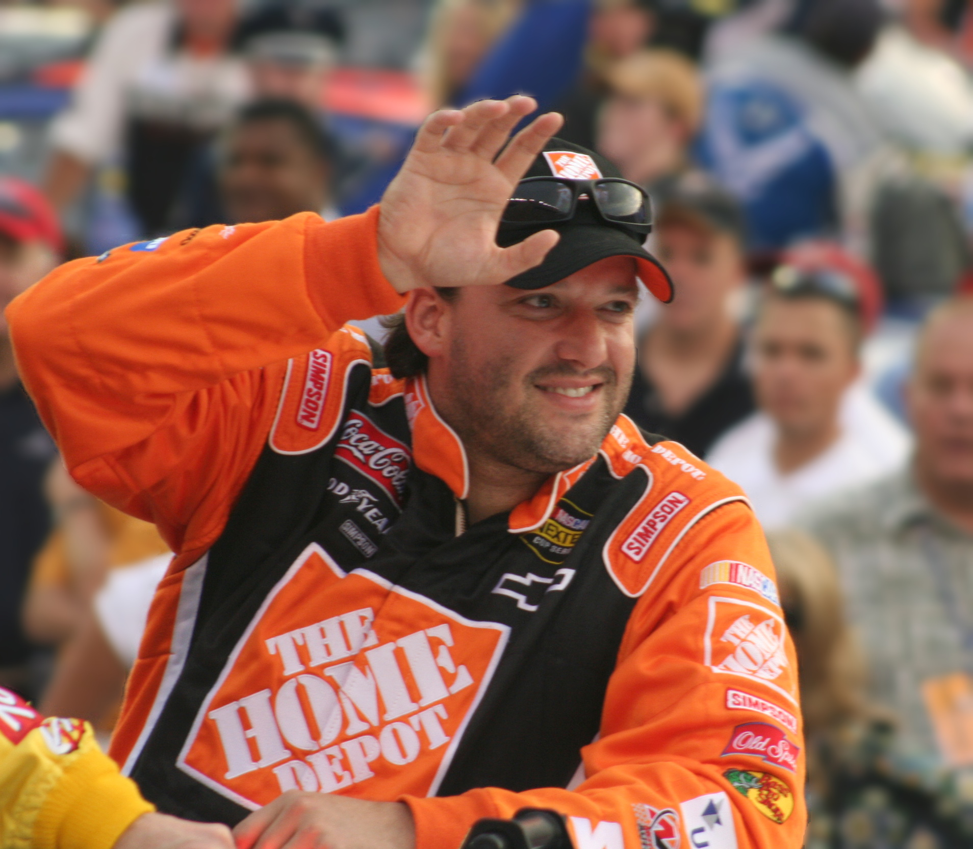 NASCAR driver Tony Stewart in August 2007 at Bristol Motor Speedway"Smoke" Tony Stewart